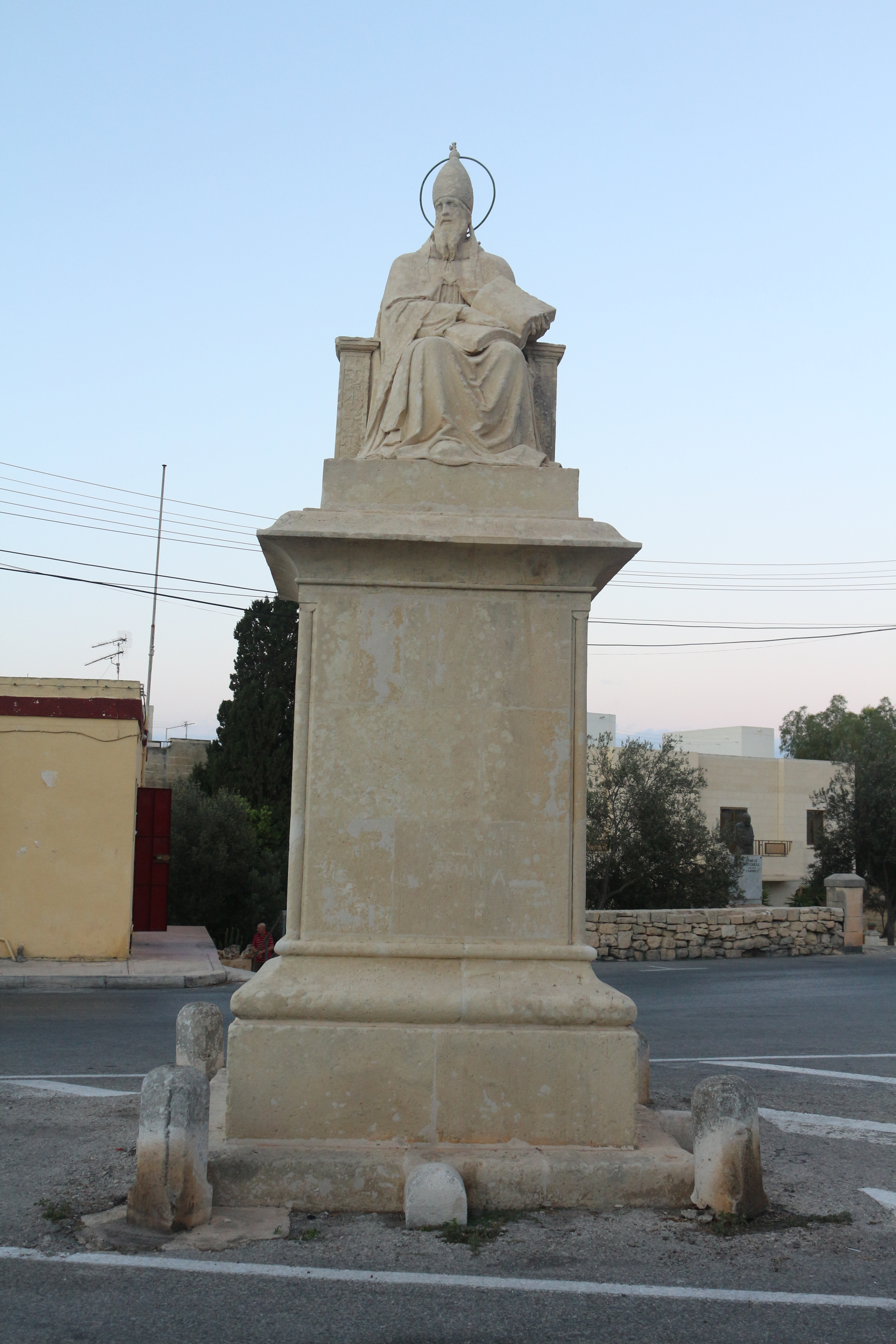 Statue of St. Gregory This media is about Maltese cultural property with inventory number 01931.